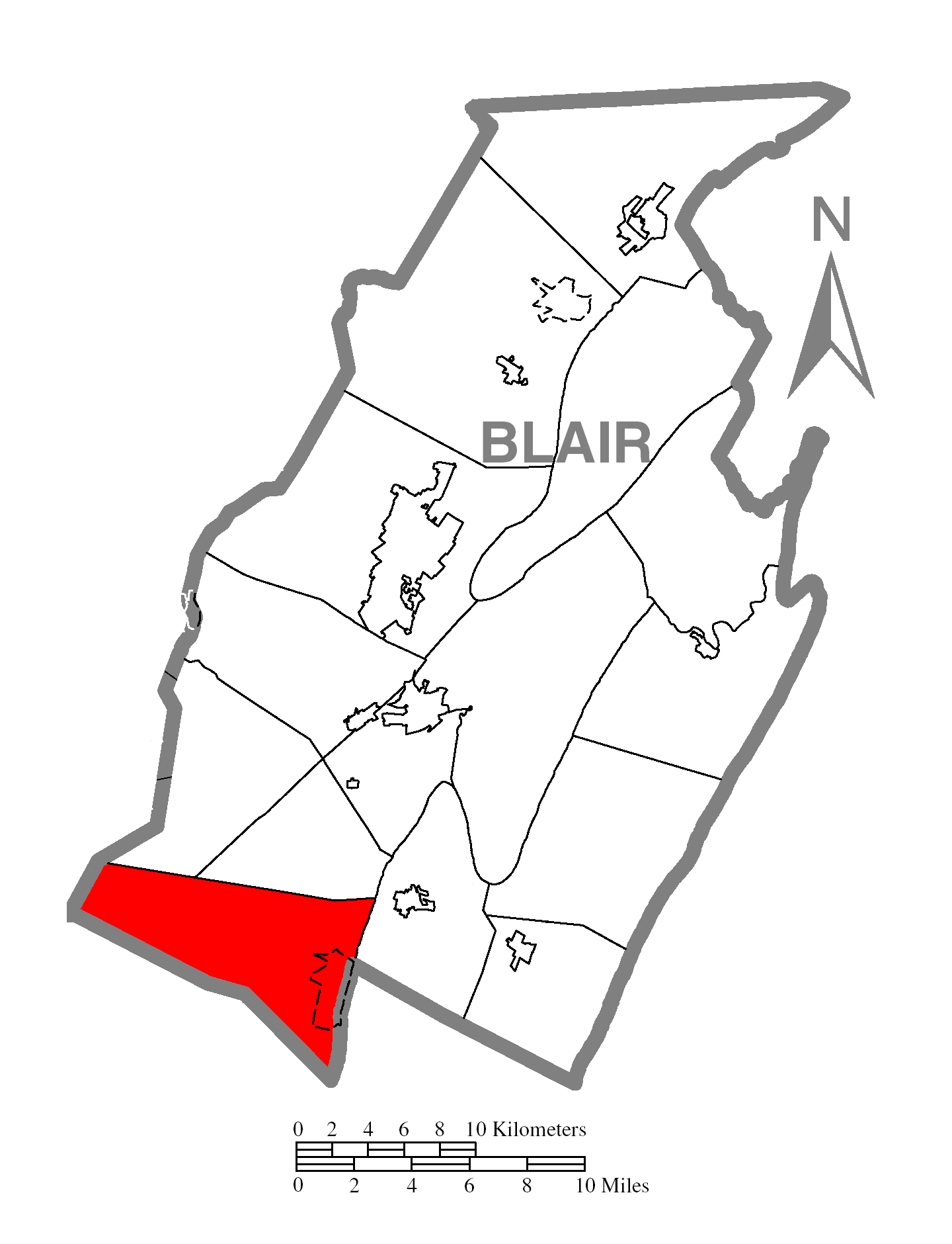 A map of Blair County showing Greenfield Township, Pennsylvania (alternate) highlighted on the map.